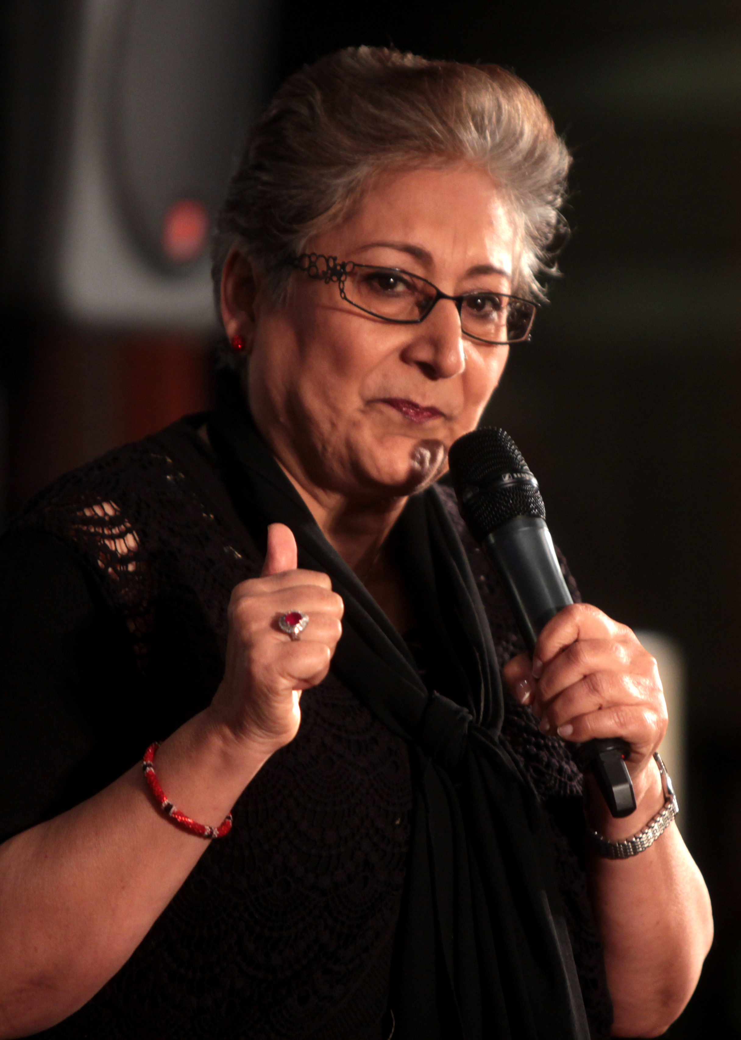 Raheel Raza speaking at an event in Scottsdale, Arizona.